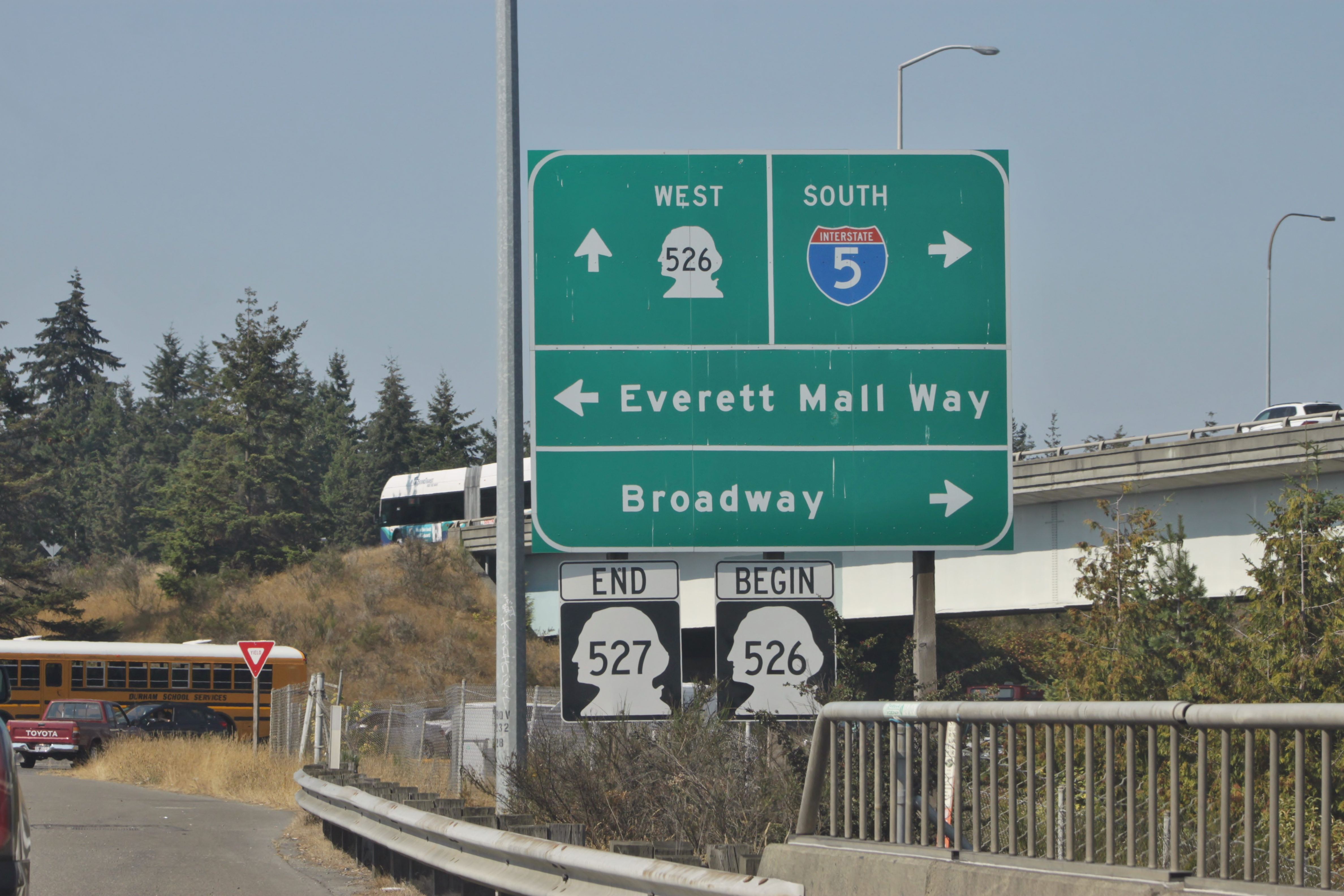 The western terminus of State Route 526 and eastern terminus of State Route 527 at an interchange with State Route 99 and Interstate 5 in southern Everett, Washington.